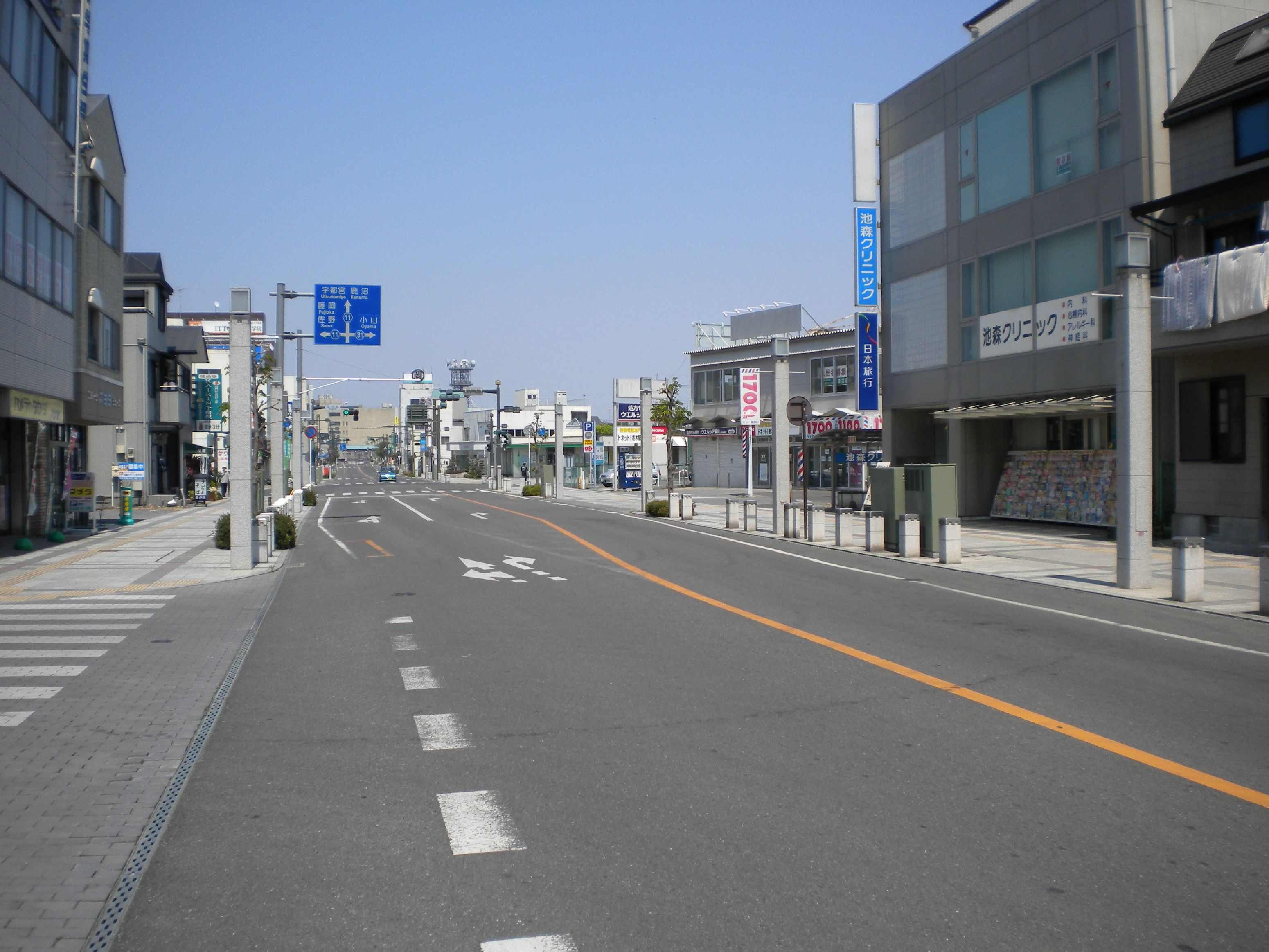 Tochigi prefectural road No.213 on Tochigi city